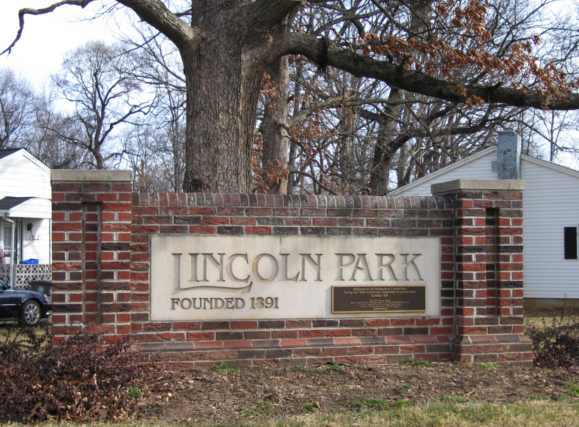 Masonry sign at entrance to Lincoln Park community — in Rockville, Maryland.